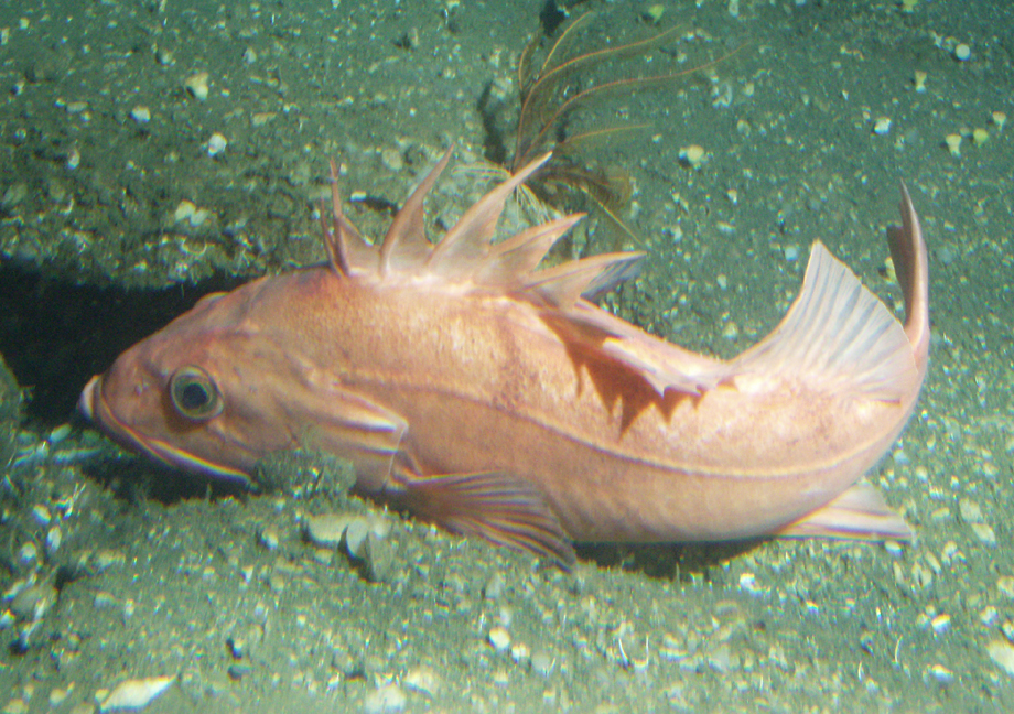 Cowcod (Sebastes levis) observed off Pt Pinos during a sanctuary seafloor monitoring survey using the Delta submersible.